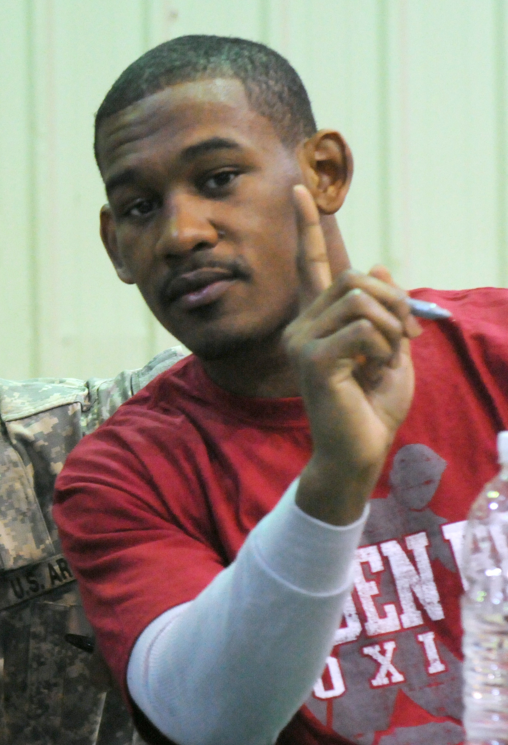 Former ten-time boxing Champion Oscar De La Hoya and his prodigy middleweight boxer Daniel Jacobs pose with a U.S. Division - Center soldier at Camp Liberty MWR building, March 13. Sponsored by the USO, Golden Boy Boxing, an organization founded by Oscar De La Hoya several years ago, is promoting three classes of boxers and has chosen to bring the tour to servicemembers serving in Iraq.